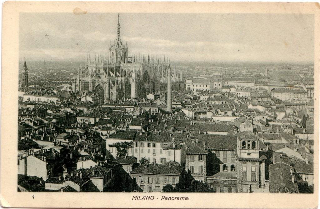 View of Milan city center, Italy, circa 1910. The chimney of Santa Radegonda power plant is clearly visible. The plant, built in 1883, was the first power plant in Europe.